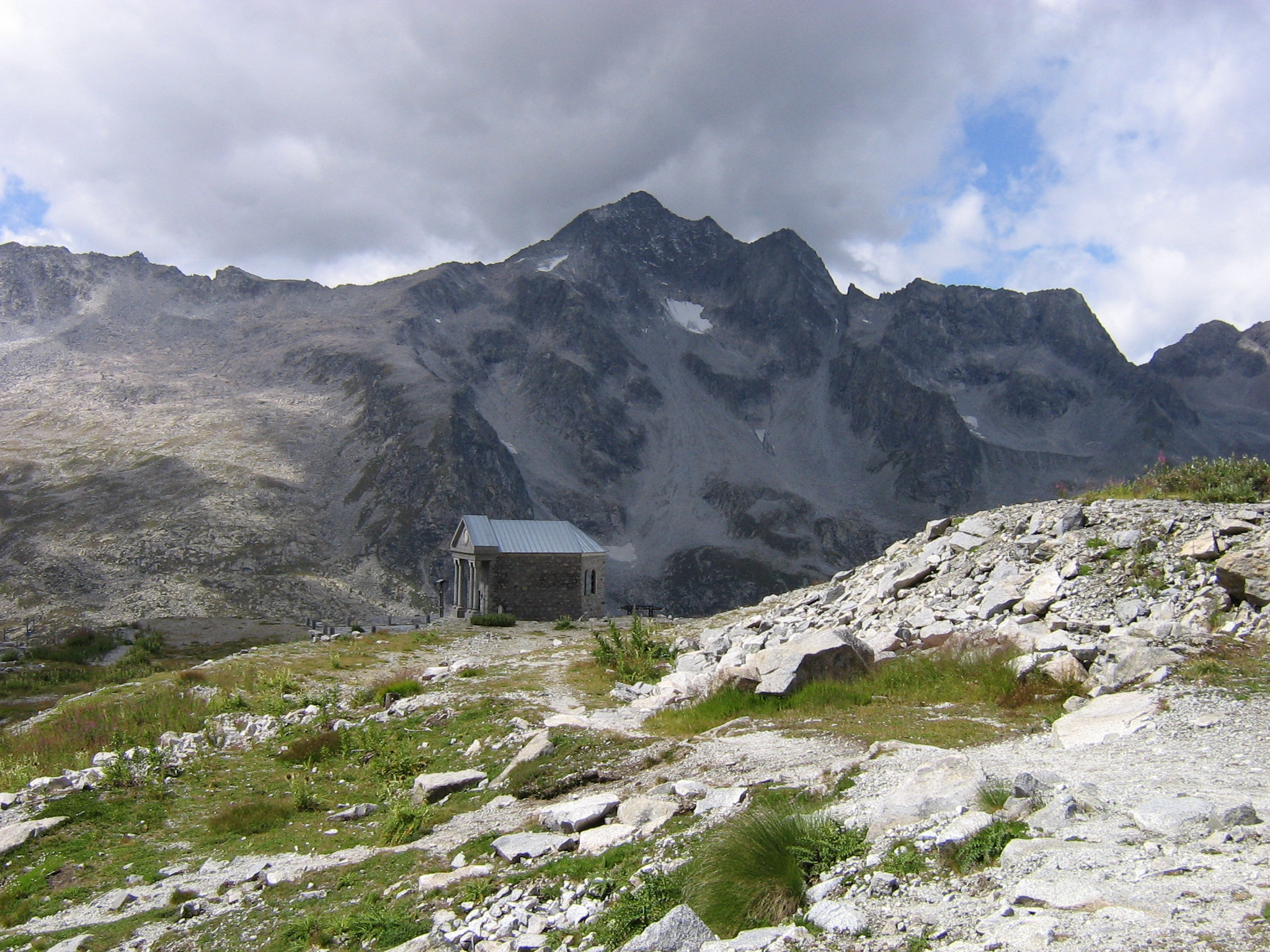 Corno Baitone (3331 mt, 10992 ft.) from Rifugio Garibaldi, Adamello, Alps. In the foreground, the Madonnina dell'Adamello shrine, built by Italian soldiers during World War I.